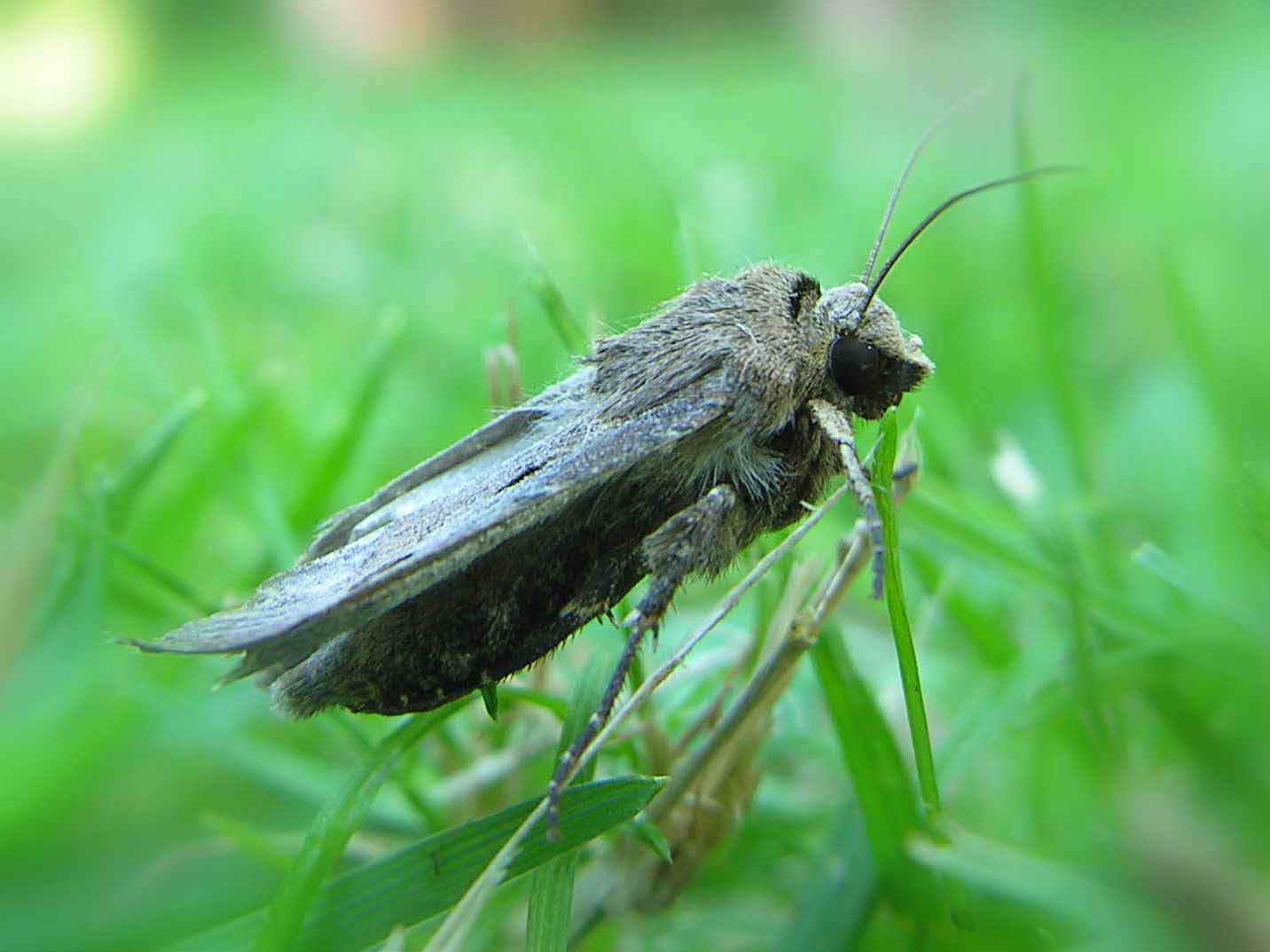 Agrotis exclamationis (Linnaeus, 1758)